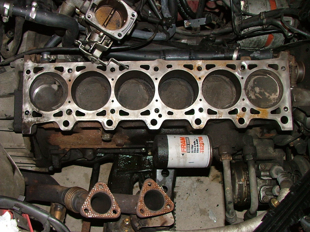 The block of a BMW M20B25 engine in a 1989 BMW 325i. Taken by contributor and permission given for licenced use